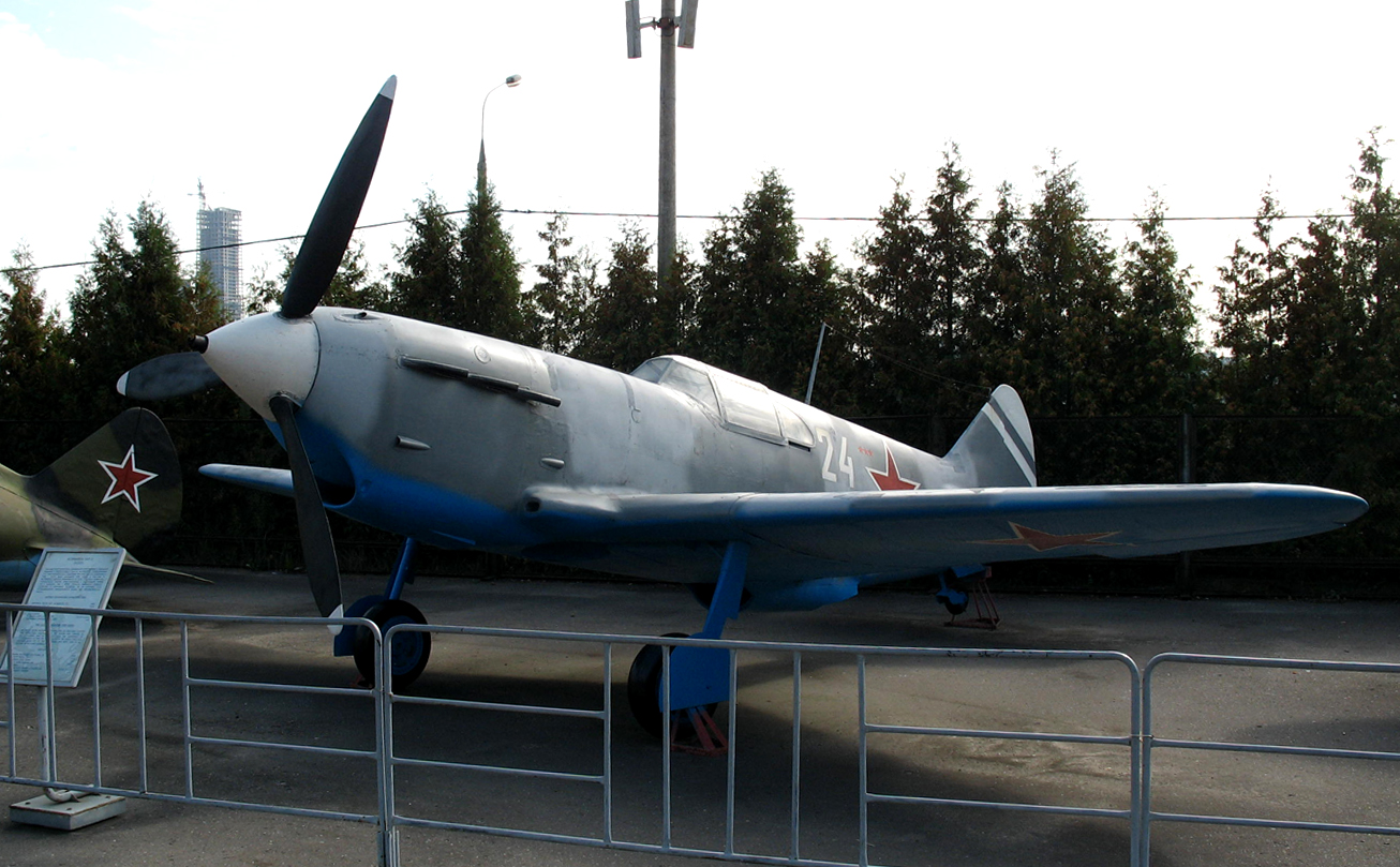 Fighter LaGG-3. A copy of the plane of the sample of 1940. Colouring of a real fighter with a board number 24 from structure of 9th fighter aviashelf of the Air Forces of the Black Sea fleet